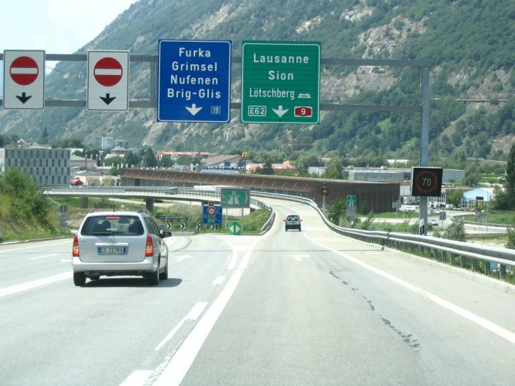 The A9 highway in Switserland, by Brig.